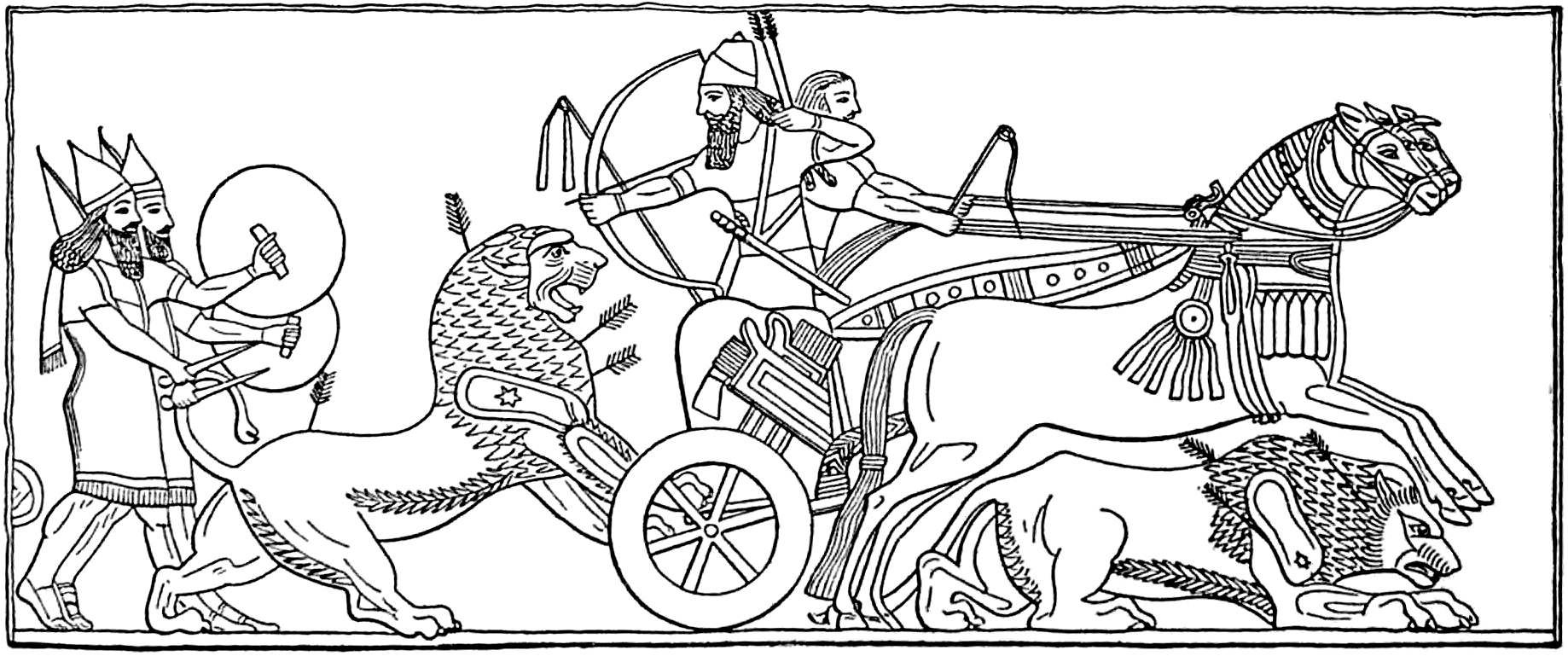 Assyrian Bas-Relief